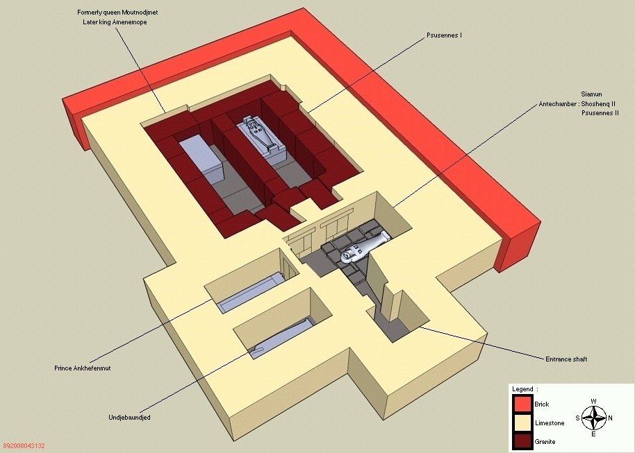 Restored view of the tomb NRT III from the royal necropolis at Tanis with the tombs of Psusennes I (21st d.), his wife Mutnodjmet, their son Amenemope, an other son Ankhefenmut, the general Undjebundjed, and in the antechamber the sarcophagus of Shoshenq II (22nd d.) between the rests of the mummies of Psusennes II and Siamun (these three latter kings were moved in this grave later) - 21st dynasty and 22nd dynasty of Egypt